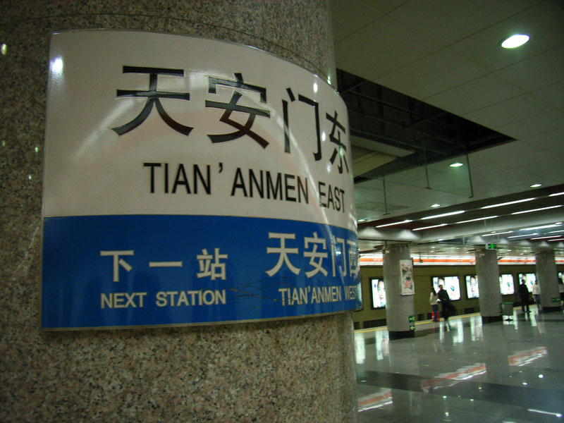 Beijing Subway Tian'anmen East Station 北京地铁天安门东站 photo by: user:吉恩